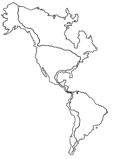 The trail that Meegan walked